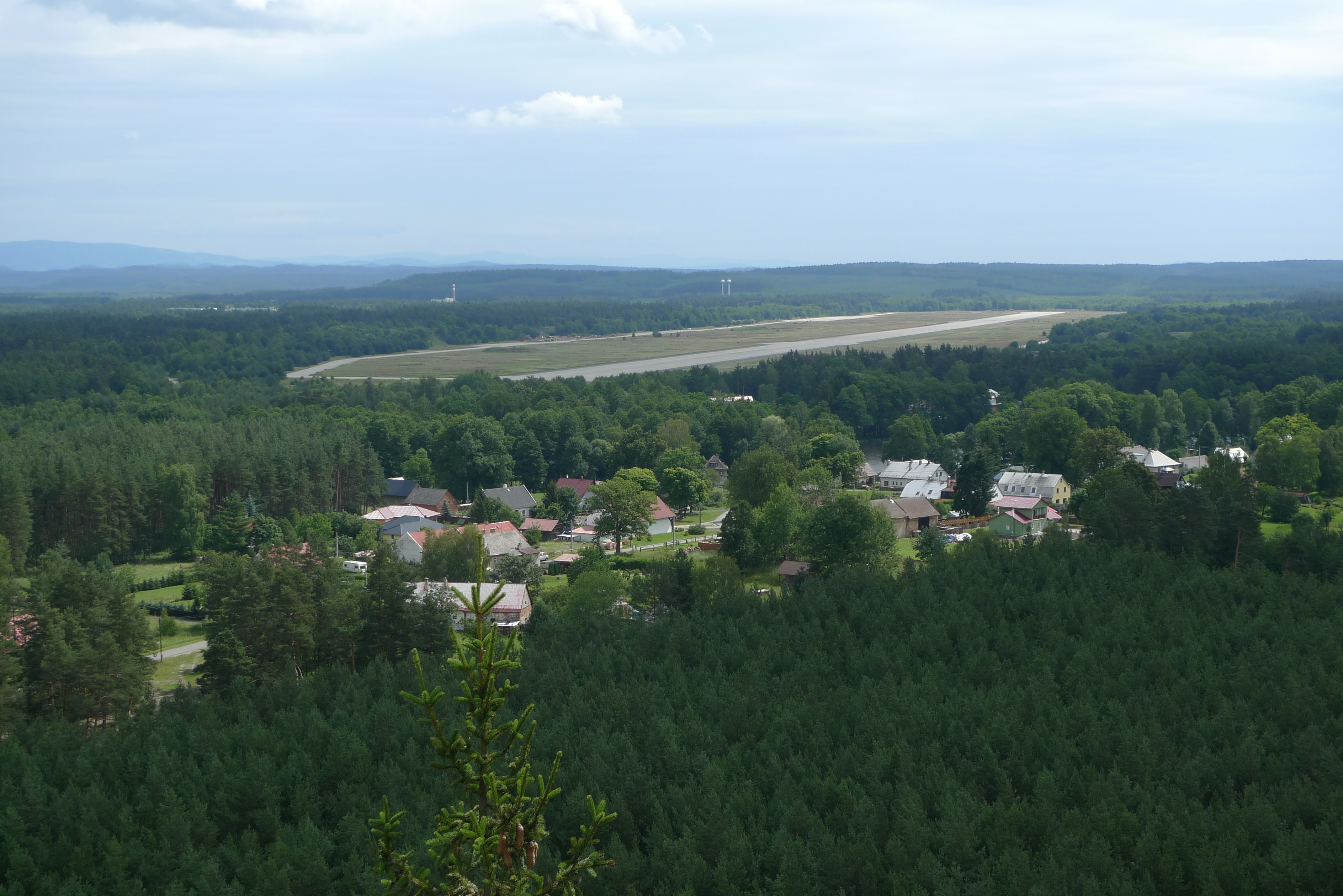 Military airport Hradčany, Czech Republic in 2011